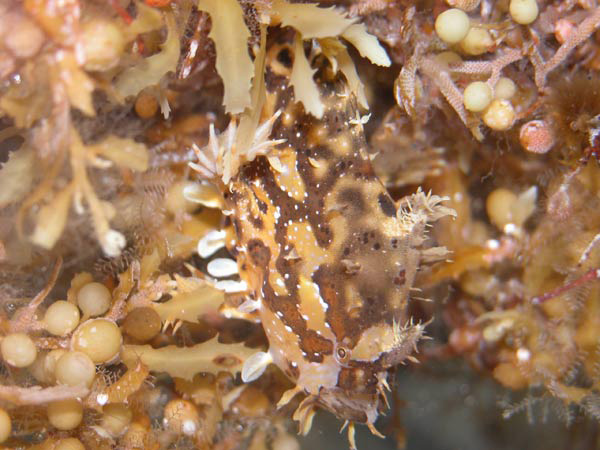 Sargassumfish (Histrio histrio) in an aquarium.